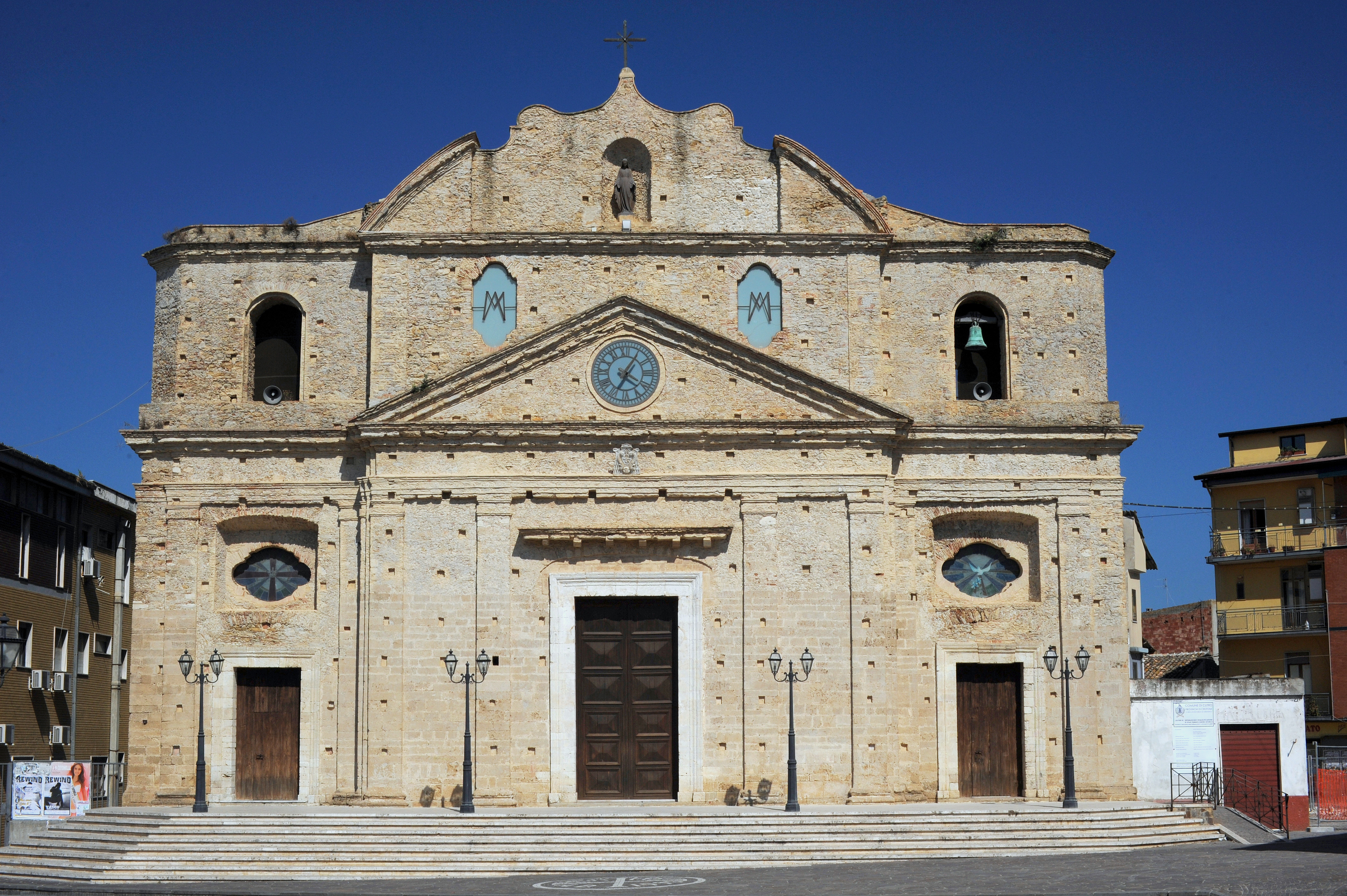 Church "Chiesa Madre", Cutro, Calabria, Italy.